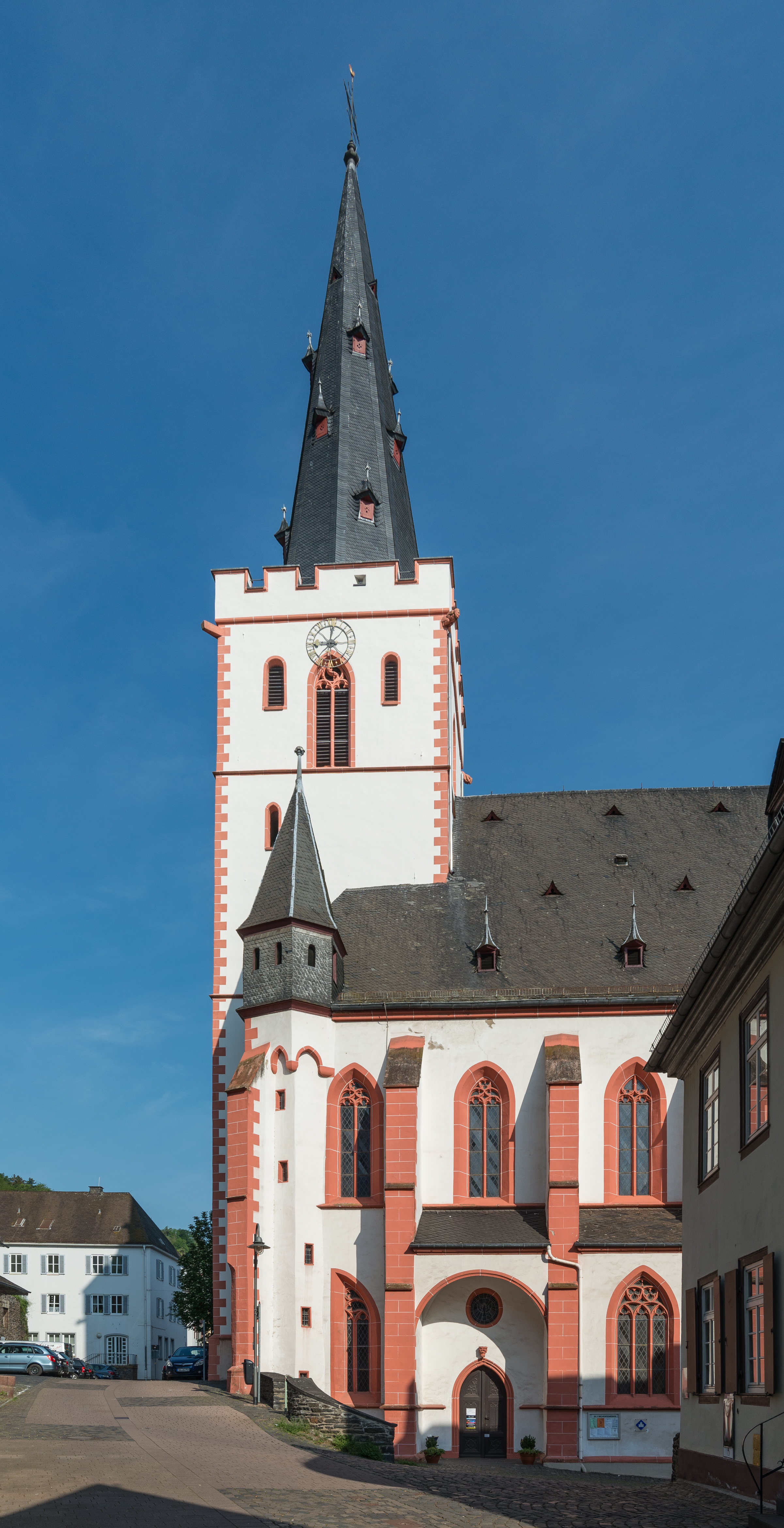 Stiftskirche St. Goar, Southeast partial view